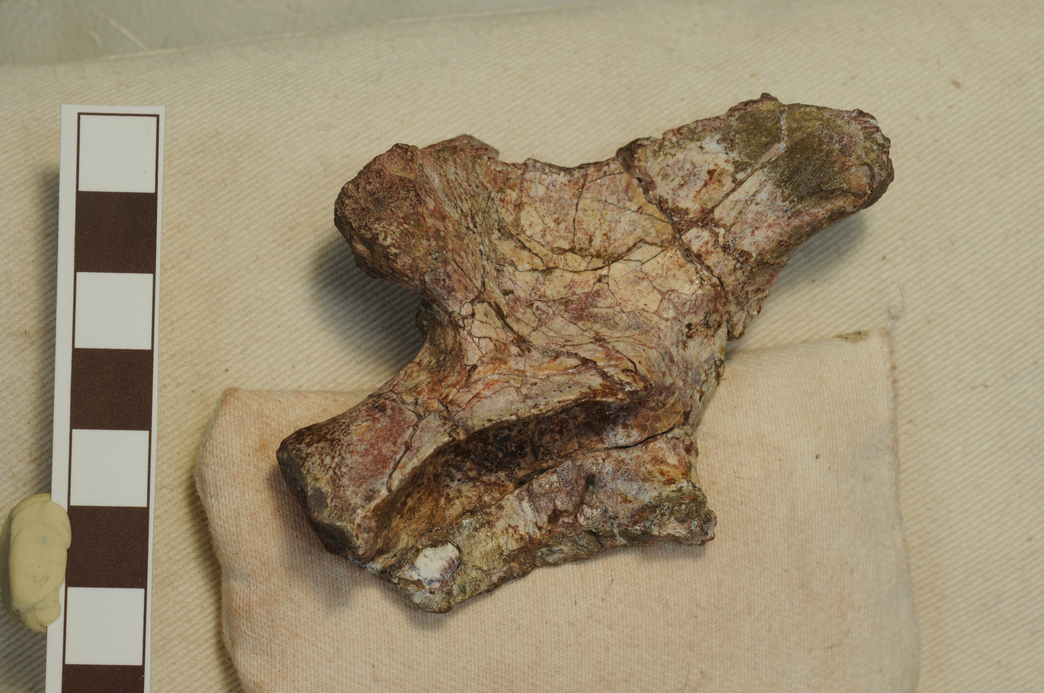 Morphobank media number: M323733 Taxonomic name: † Lutungutali sitwensis Specimen: † Lutungutali sitwensis (NHCC:LB32) View: lateral Side represented: left side Media loaded by: MorphoBank Curator Copyright holder: Brandon Peecook Bibligraphical reference: Peecook, B.R., C.A. Sidor, S.J. Nesbitt, R.M.H. Smith, J.S. Steyer, K.D. Anigelczyck. 2013. A New Silesaurid from the Upper Ntawere Formation of Zambia (Middle Triassic) Demonstrates the Rapid Diversification of Silesauridae (Avemetatarsalia, Dinosauriformes). Journal of Vertebrate Paleontology. 33 (5):1127-1137.